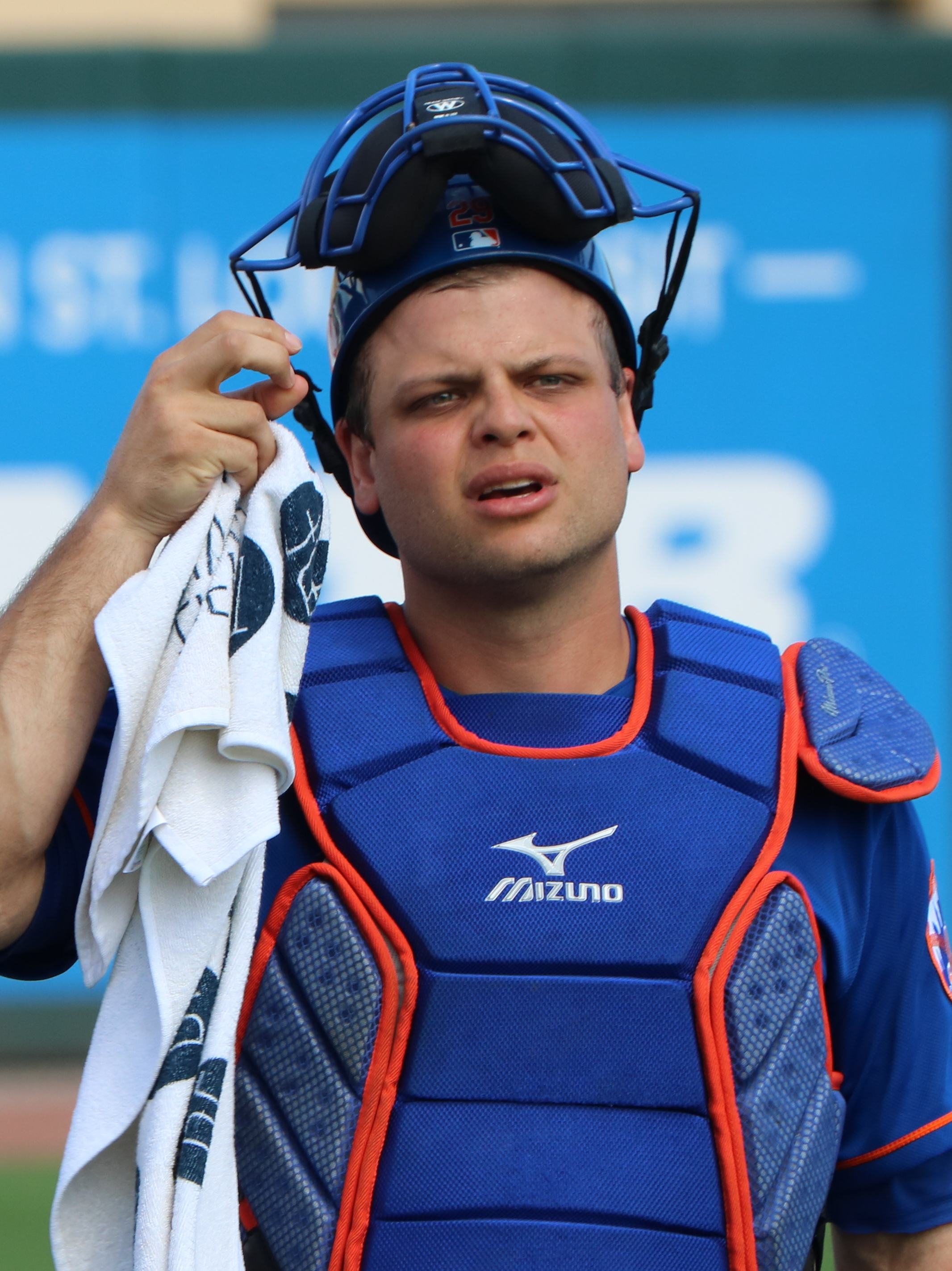 Devin Mesoraco during warmups, March 3, 2019